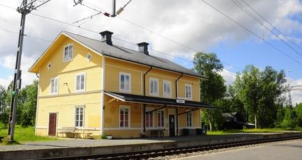 Enafors railwaystation Åre, sweden